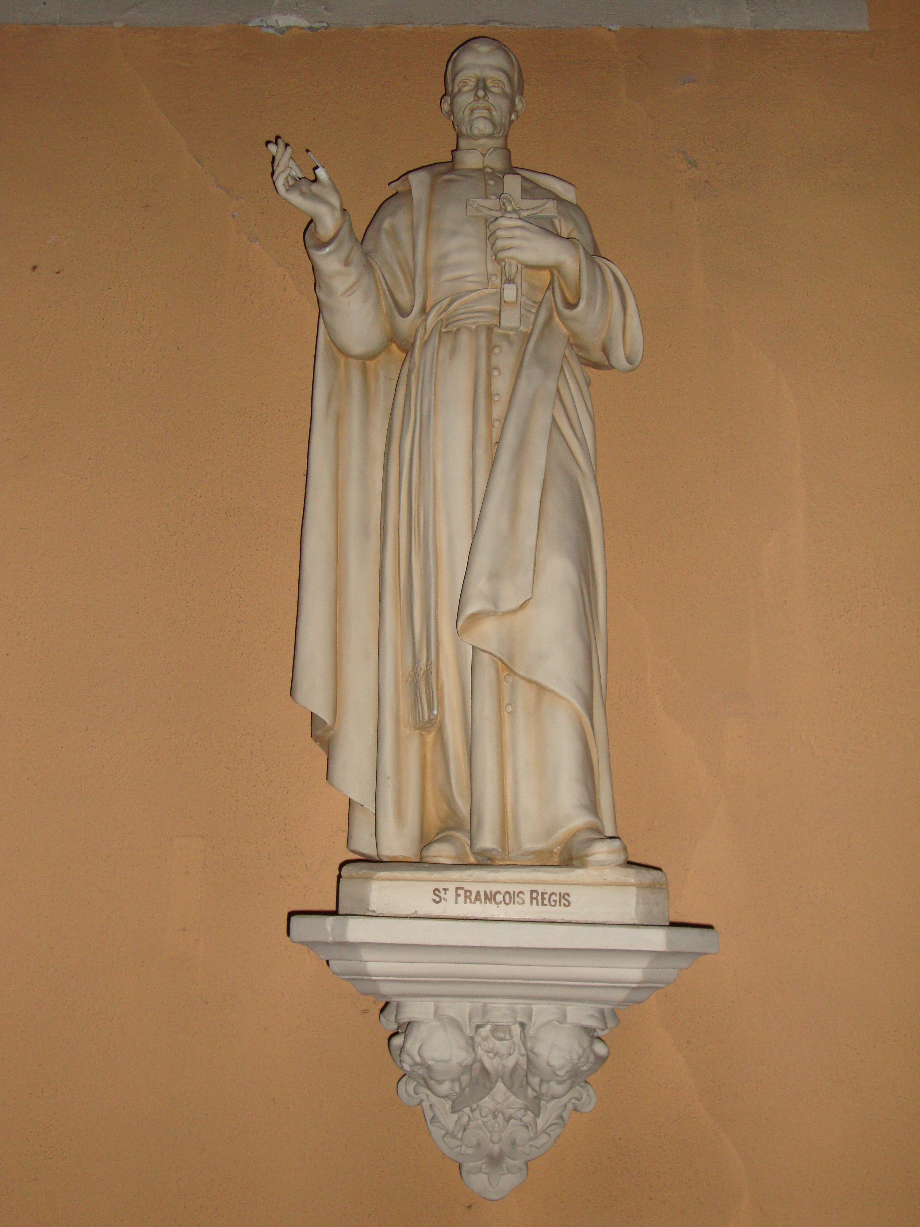 St.Martin-de-Valamas (Ardèche) church, statue St.François Régis.